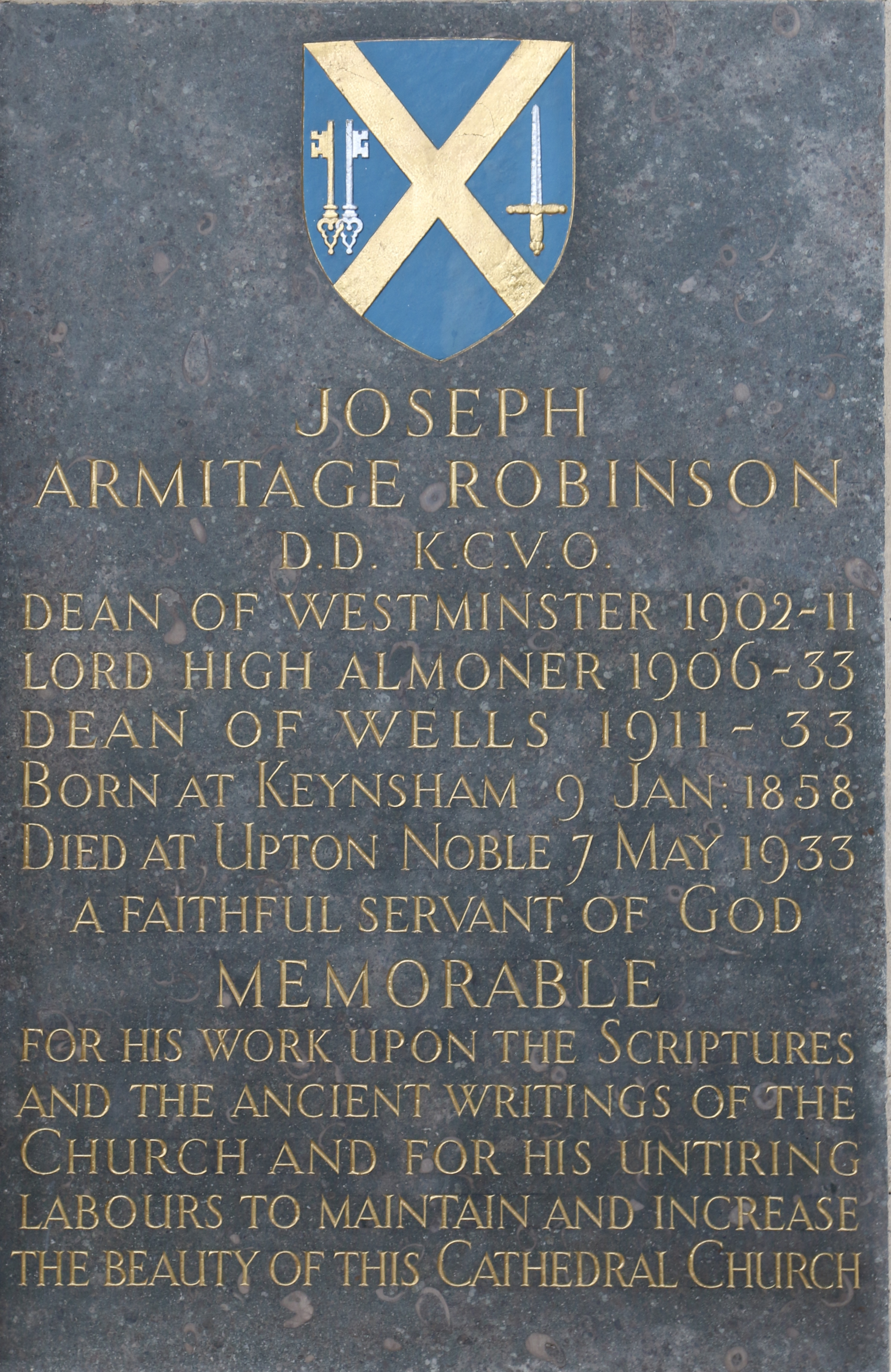 Joseph Armitage Robinson DD KCVO Dean of Westminster 1902 - 11 Lord High Almoner 1906 - 33 Dean of Wells 1911 - 33 Born at Keynsham 9 Jan 1858 Died at Upton Noble 7 May 1933